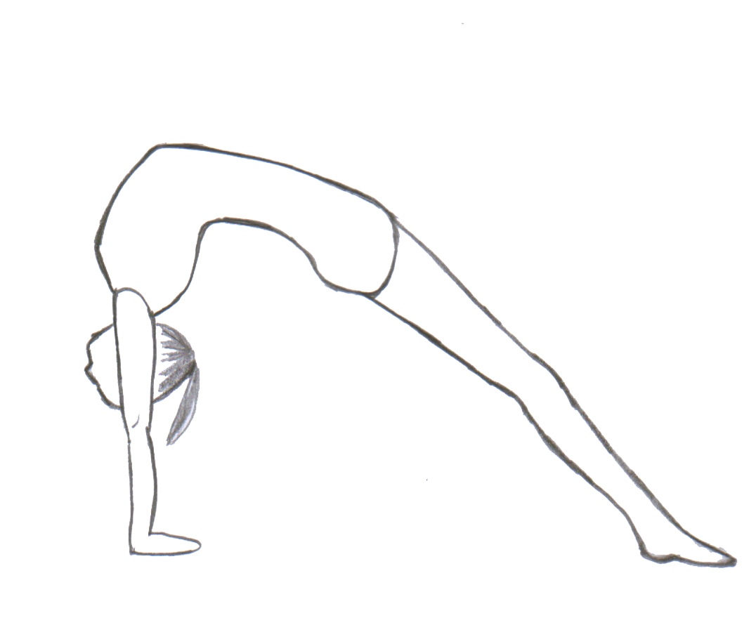 An image I drew of a bridge position used in gymnastics, contortion, dance, martial arts etc/